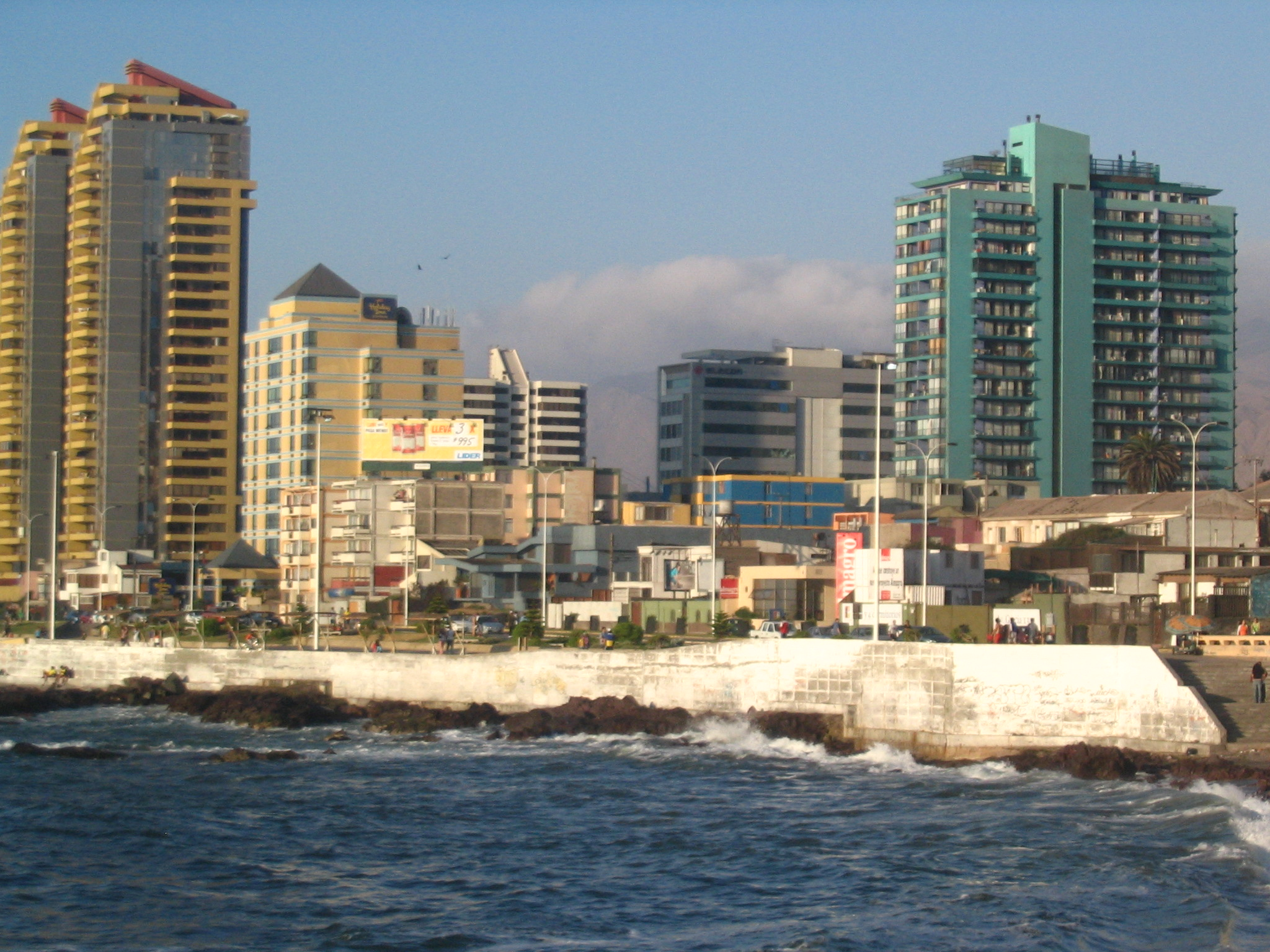 Antofagasta, Chile.